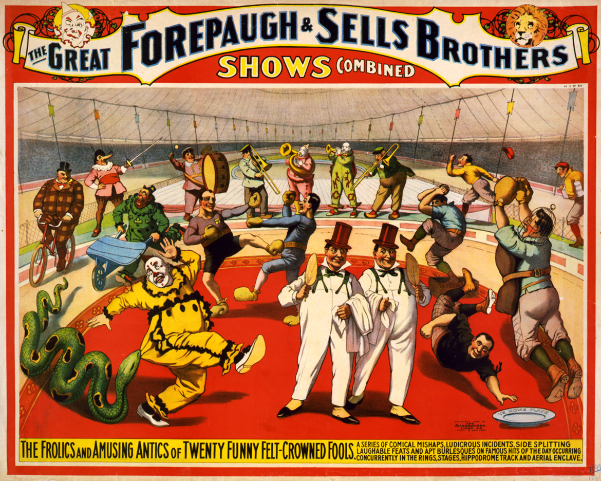 The great Forepaugh & Sells Brothers shows combined. The frolics and amusing antics of twenty funny felt-crowned fools. A series of comical mishaps, ludicrous incidents, side-splitting laughable feats and apt burlesques on famous hits of the day occurring concurrently in the rings, stages, hippodrome track, and aerial enclave.